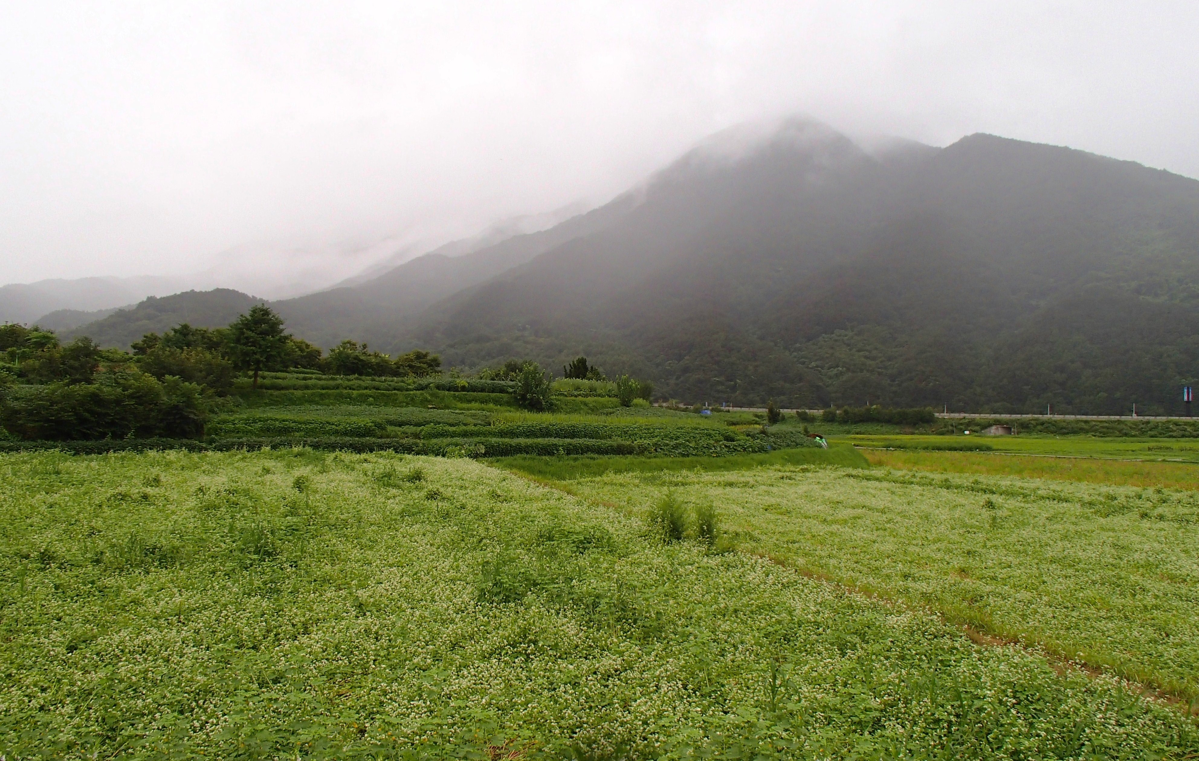 This photo was taken at a rice paddy near the base of Jirisan.